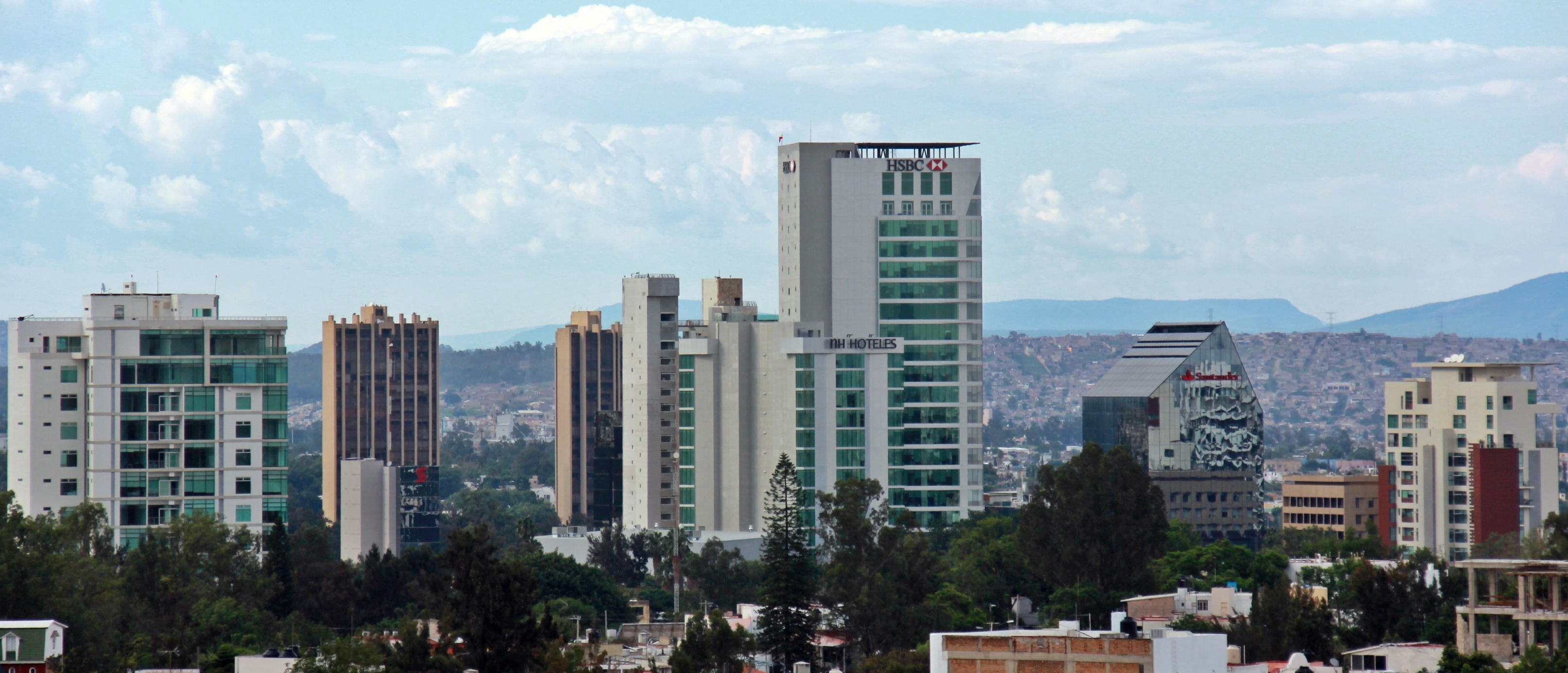 Skyline Guadalajara